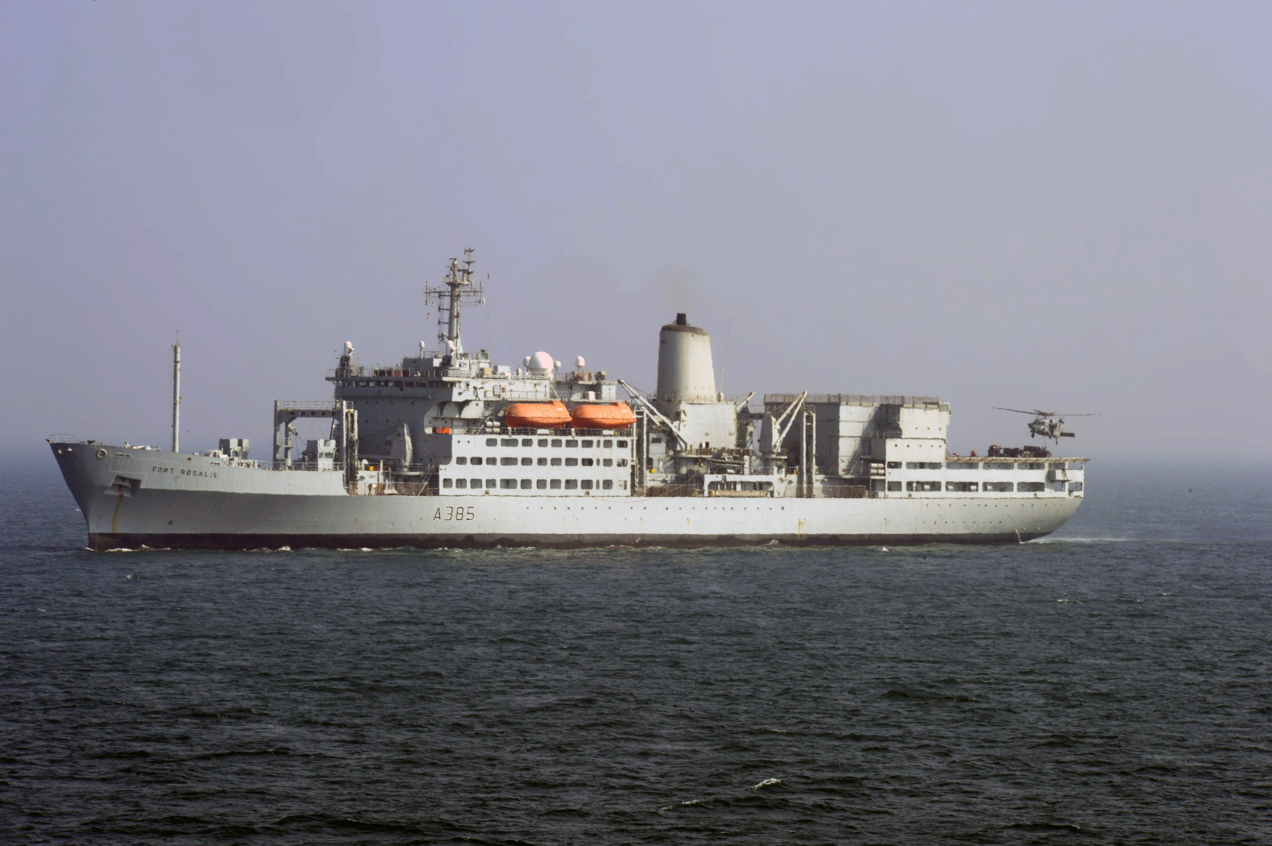 A U.S. Navy Sikorsky MH-60S Sea Hawk from Helicopter Sea Combat Squadron 6 (HSC-6) "Indians" picks up cargo from the United Kingdom's Royal Fleet Auxiliary (RFA) Fort Rosalie (A385) to deliver to the U.S. Navy guided-missile cruiser USS Bunker Hill (CG-52), not visible, during a vertical replenishment in the Arabian Sea on 8 February 2018. HSC-6 was assigned to Carrier Air Wing 17 (CVW-17) aboard the aircraft carrier USS Theodore Roosevelt (CVN-71) for a deployment to the Western Pacific and the Indian Ocean from 6 October 2017 into 2018.